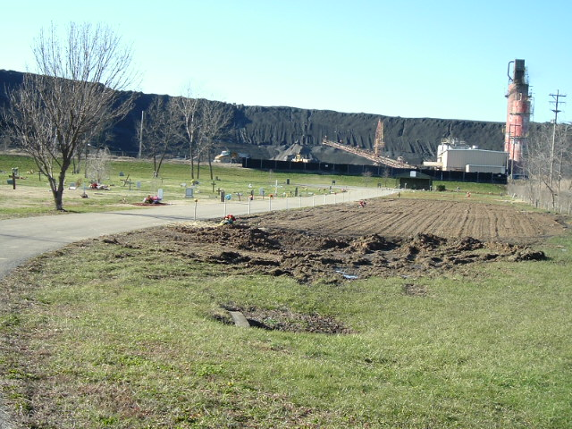 Mounds of coal ash at the Cane Run Power Plant in Louisville, Kentucky. Viewed from Mill Creek Bike Trail.